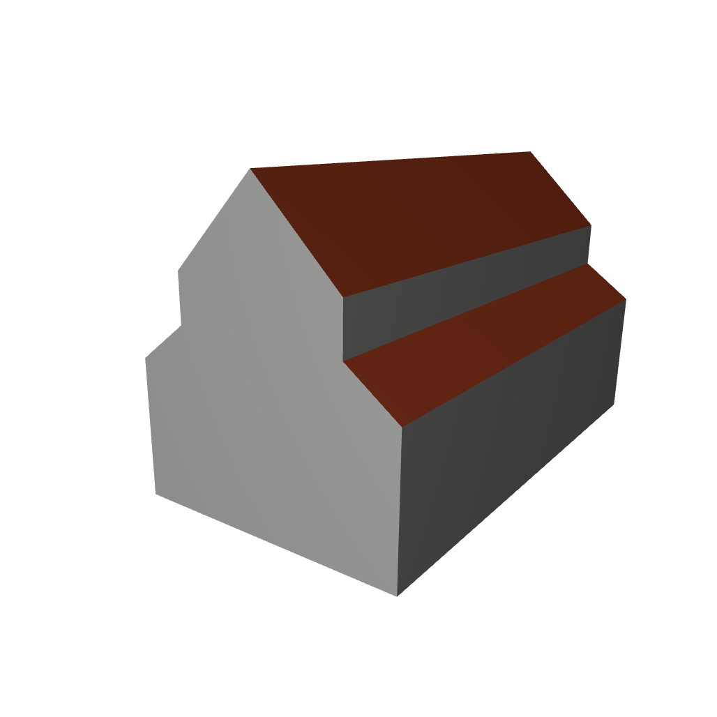 Illustration of a clerestory roof.